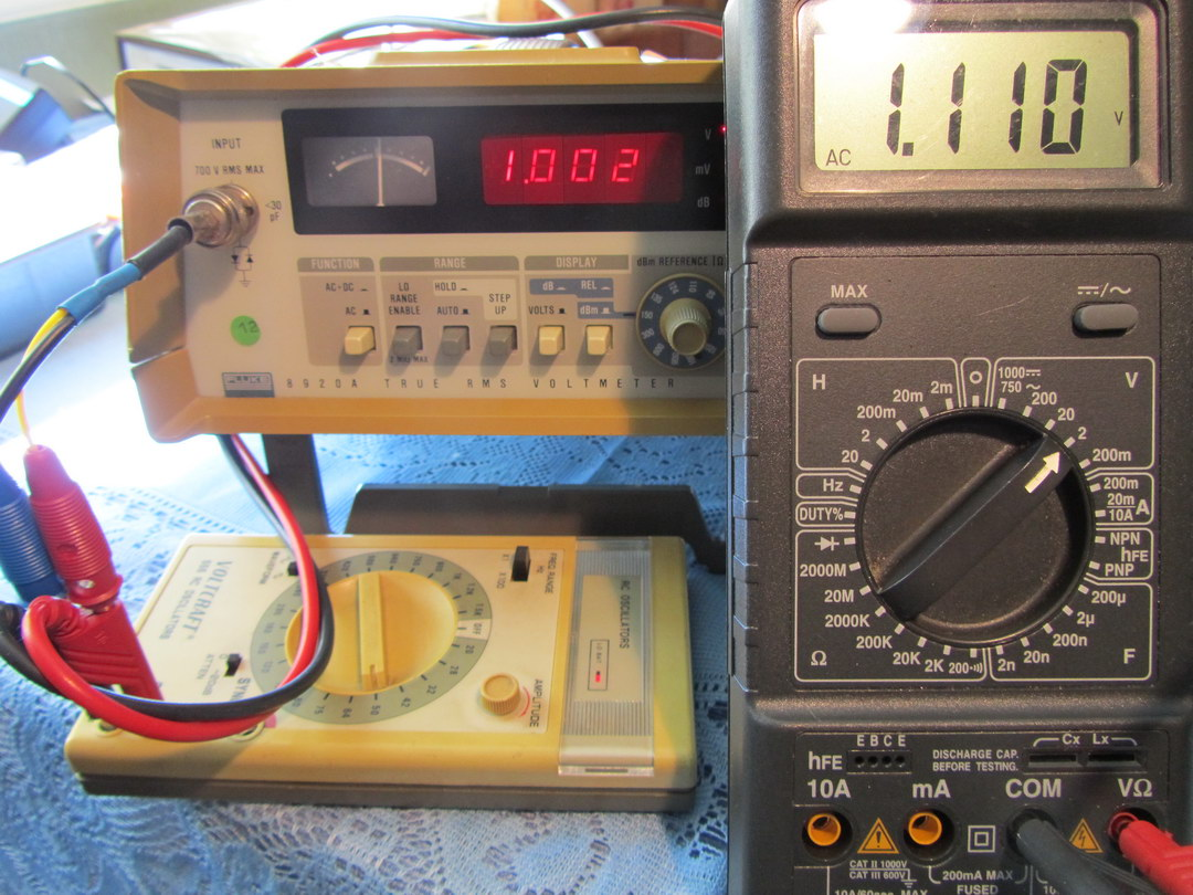 Difference in readings of a voltage square wave with a "true RMS" and a normal voltmeter